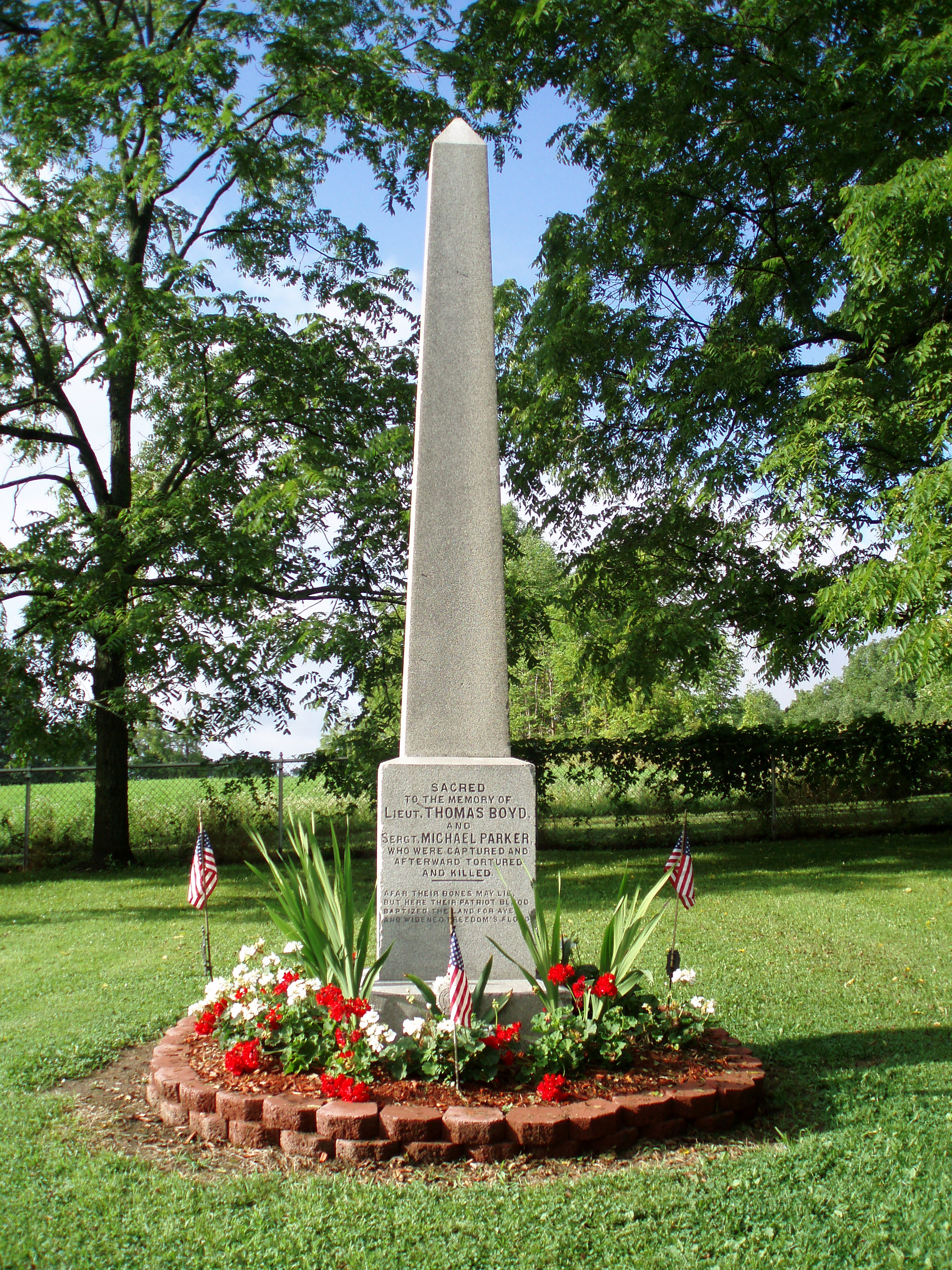 A picture of the monument at the site of the Boyd and Parker ambush The monument reads: Sacred To The Memory of Lieut. Thomas Boyd and Sergt. Michael Parker Who were captured and afterward tortured and killed Afar their bones may lie, but here their patriot blood baptized the land for aye and wideened freedom's flood